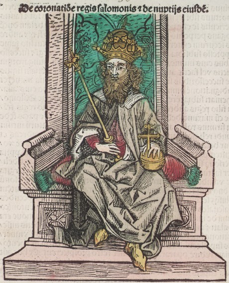 Solomon of Hungary